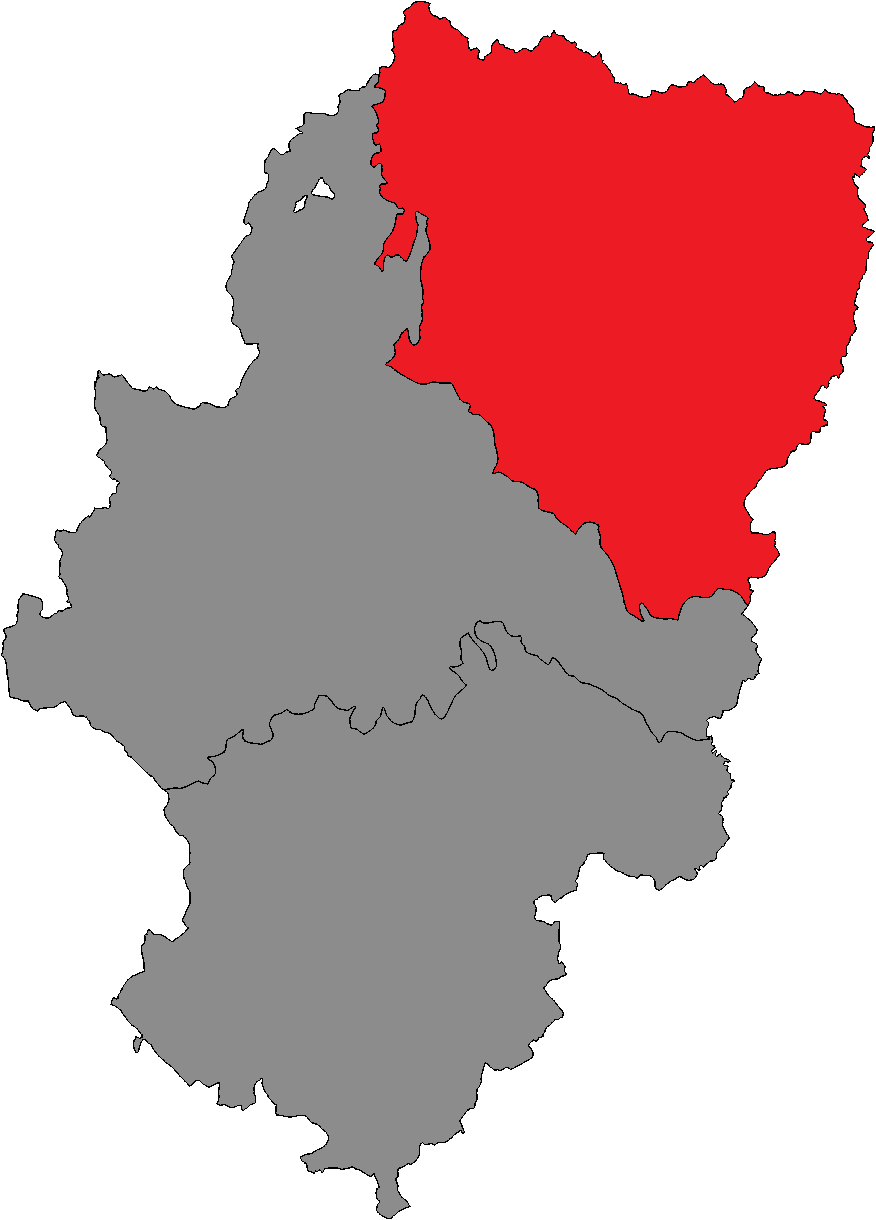 Aragonese Cortes district of Huesca.